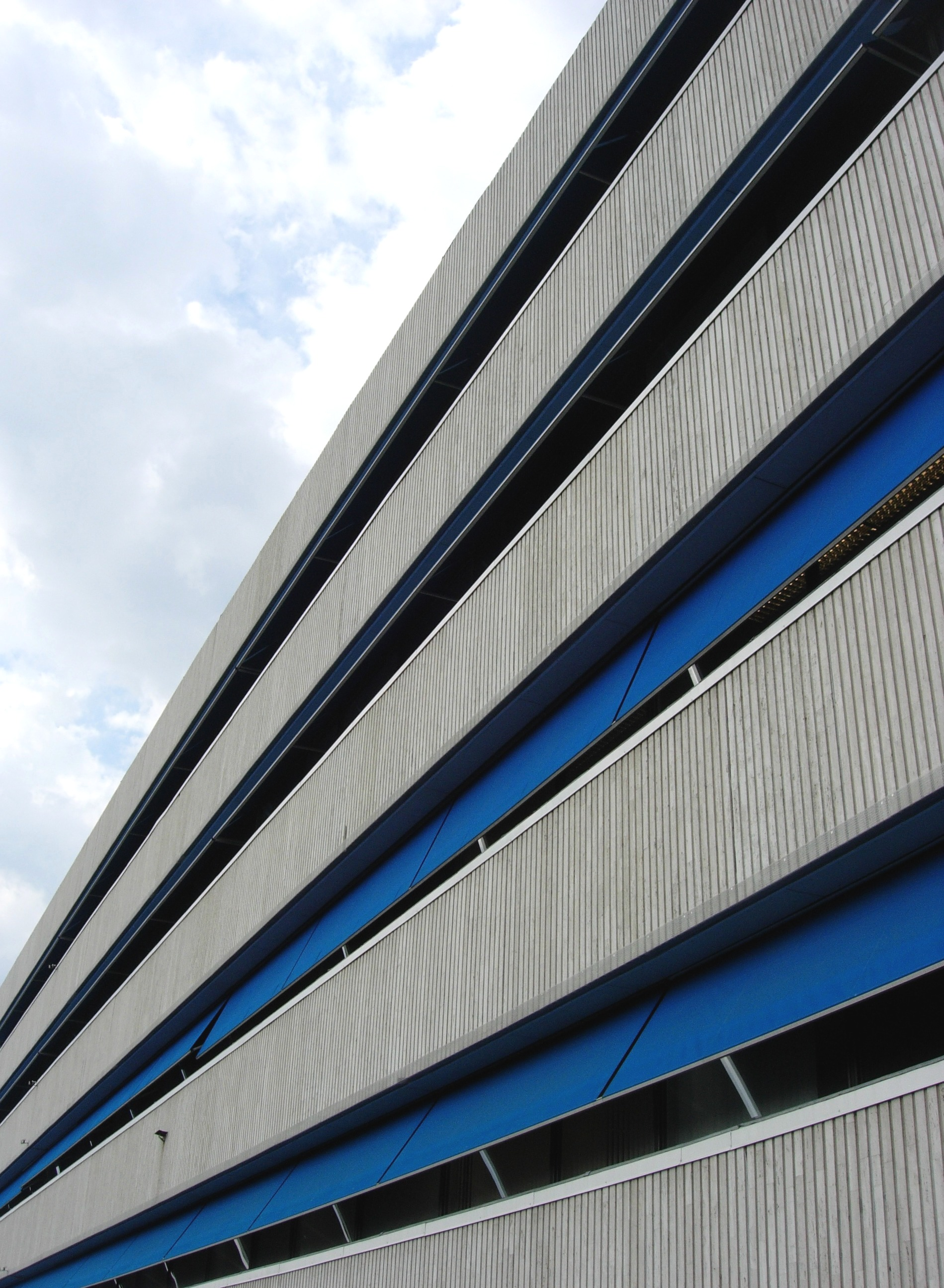 KOP-kolmio also known as Mezzo in the center of Turku.